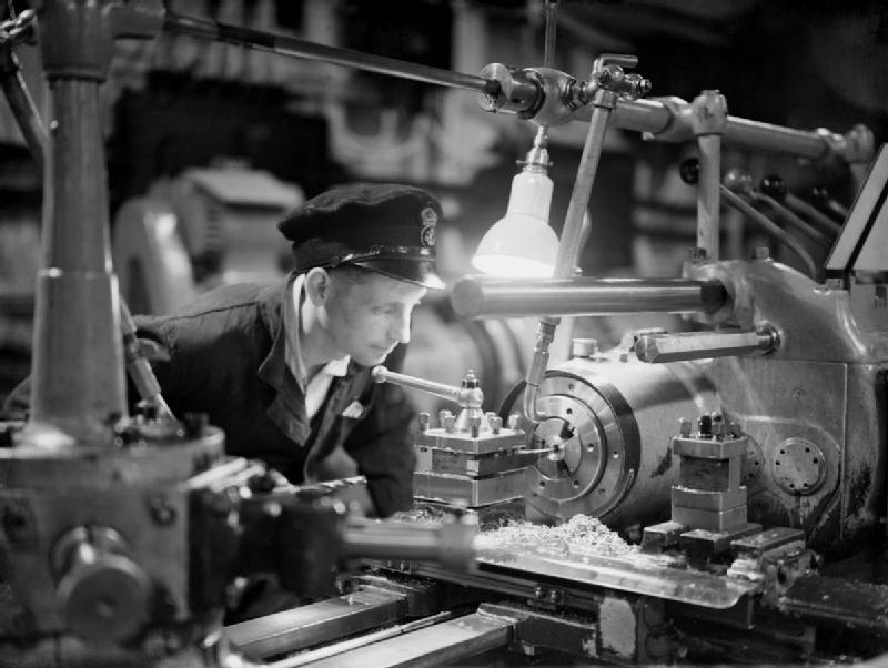 An engine room artificer at work on a lathe in the light machine shop aboard the destroyer depot ship HMS TYNE.